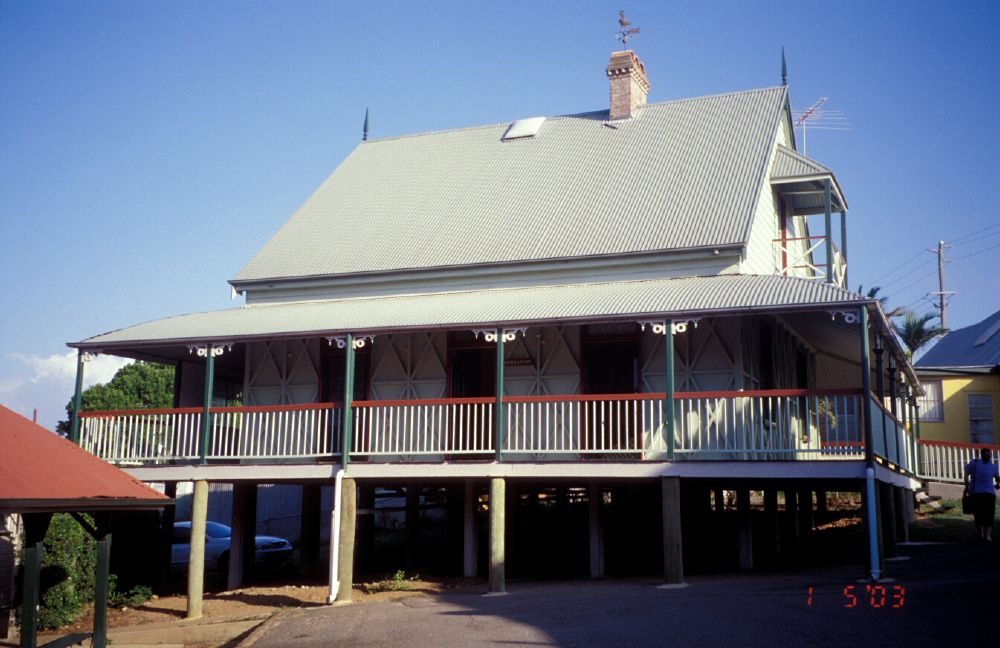 Hemmant State School and Dumbarton (Dumbarton)